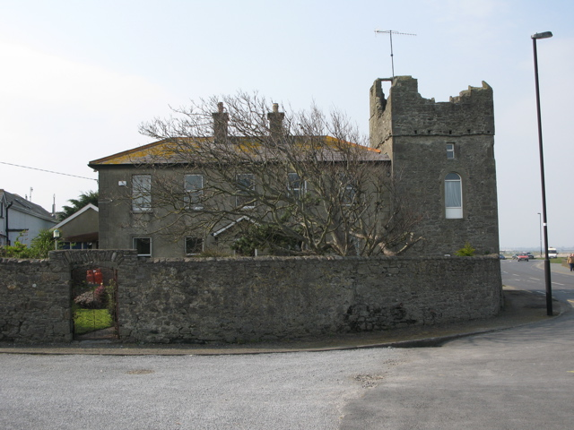 Robswall Castle, Malahide, Co. Dublin This tower house was once occupied by the Cistercian Monks of St. Mary's Abbey, Dublin and all fishing boats entering the harbour of Malahide gave a donation of fish to the monks. They also benefited from ship-wrecks. When the monasteries were suppressed by Henry VIII, he granted Robswalls to his Solicitor-General for Ireland, Patrick Barnewell C.1540. At one time it had its own small harbour hewn out of the rocks underneath and had a three-storied circular staircase. It is minus a storey to-day.